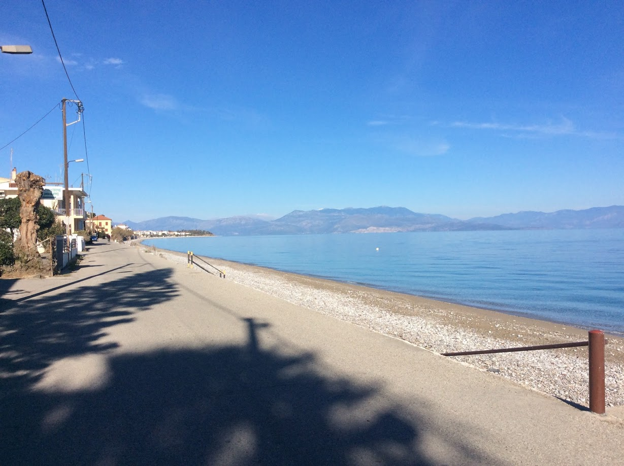 Akrata Beach